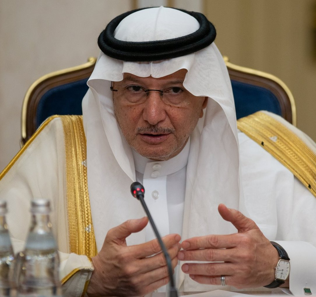 Yousef Al-Othaimeen (Federation Council of the Federal Assembly of the Russian Federation, Moscow, Russia)